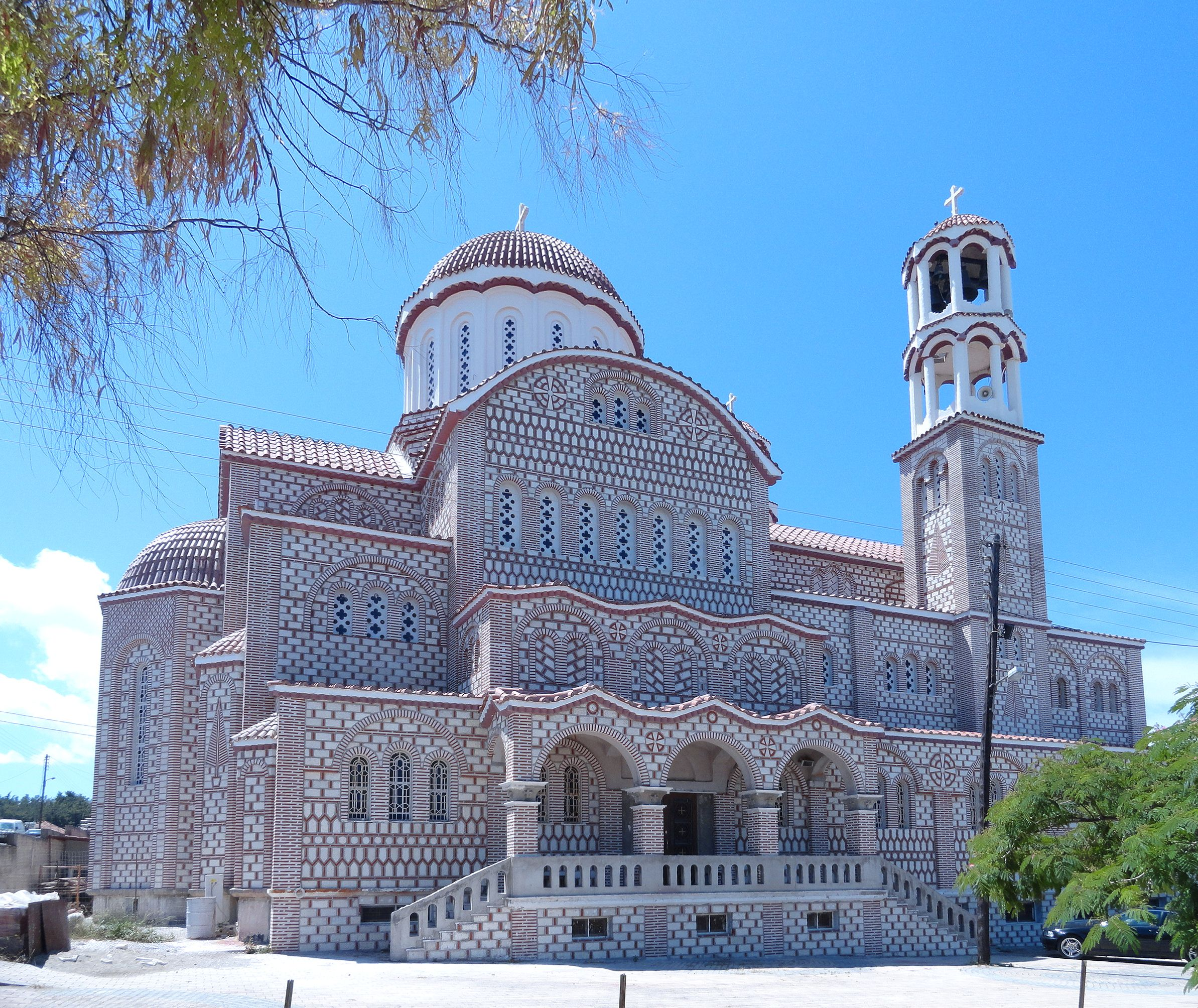 Curch in Nea Potidea, Greece